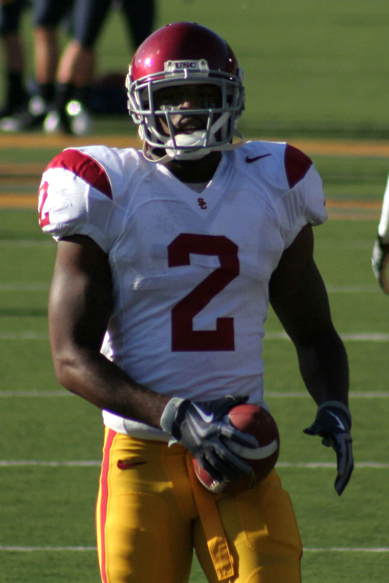 CJ Gable in 09.